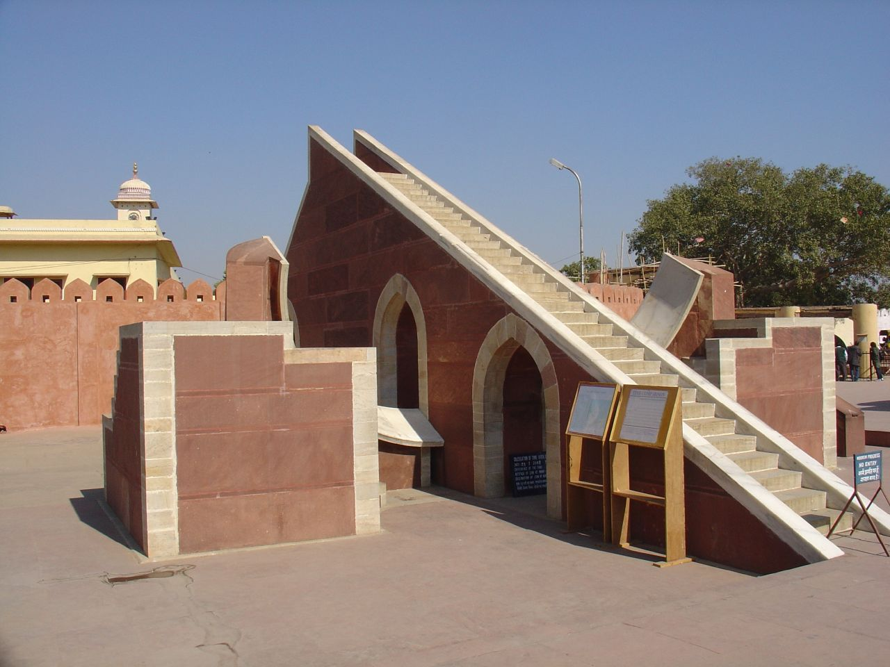 Small Sundail for Wintertime Jantar Mantar 1728